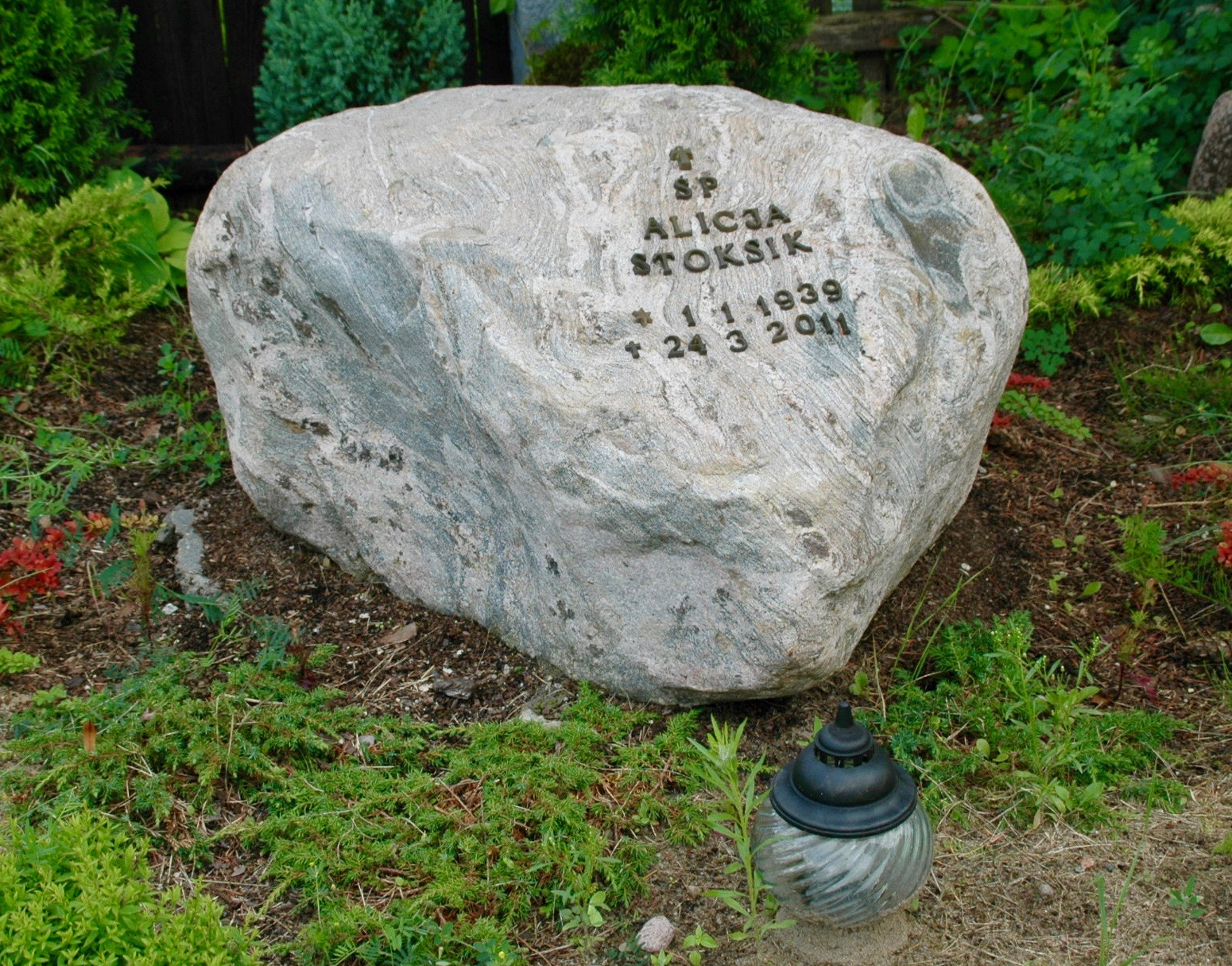 Alicja Stoksik, a commemorative stone in Swornegacie, Pomerania, Poland